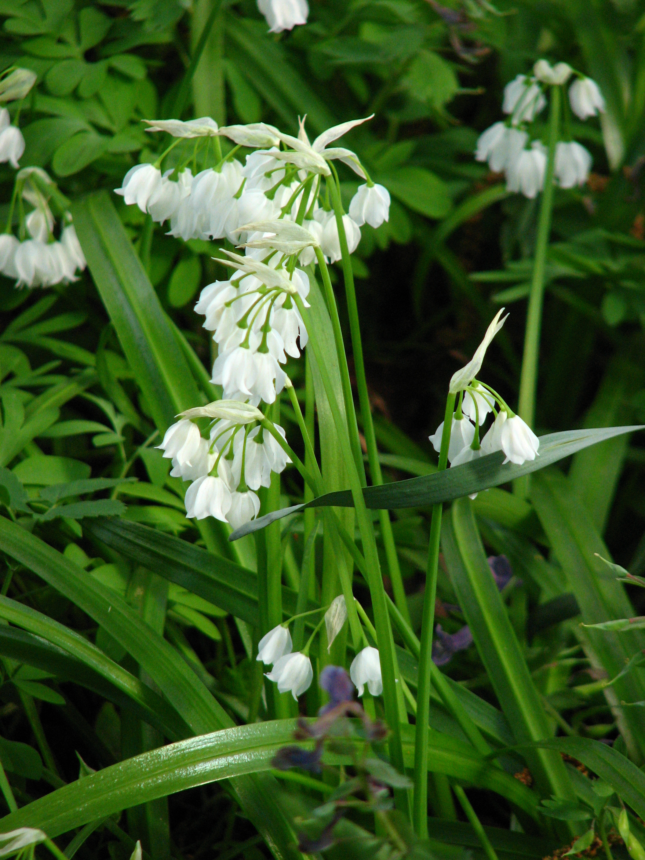 Allium paradoxum in flower beds in the Botanical Garden of Moscow State University "Aptekarsky Ogorod".